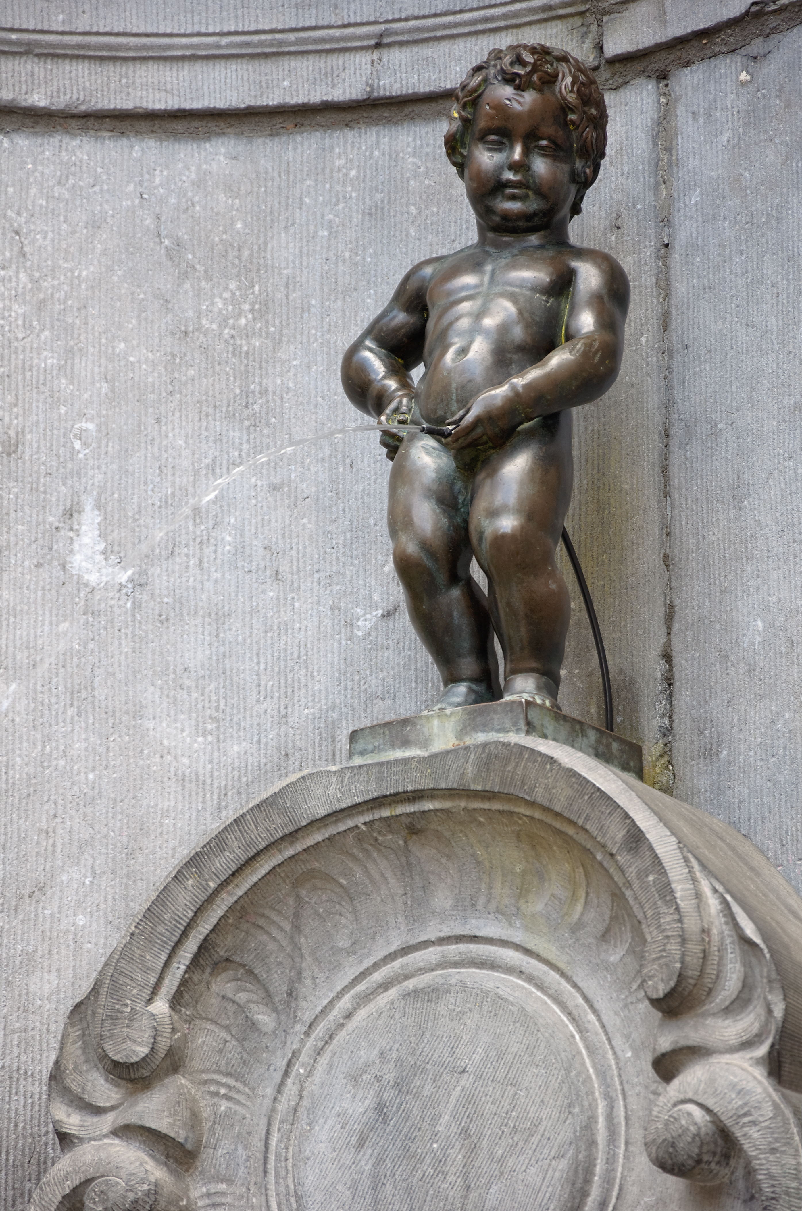 Manneken Pis in Brussels, Belgium. The original bronze statue was created by Jerome Duquesnoy, 1619. The one exhibited at the junction of Rue de l'Étuve/Stoofstraat and Rue du Chêne/Eikstraat is a replica from 1965, the original being preserved in the Brussels City Museum.